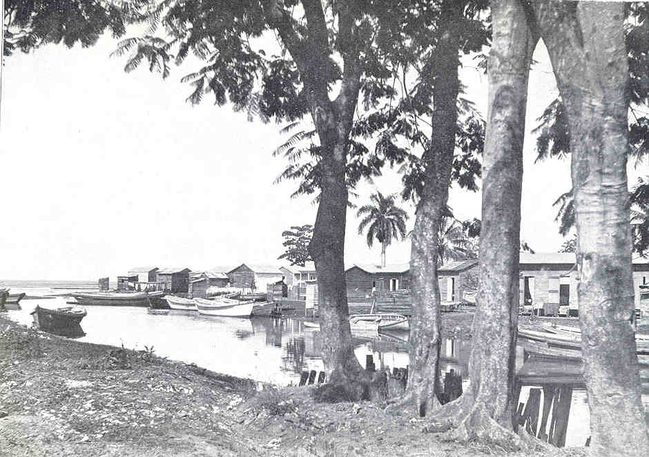 Fish Boats and Homes of Fishermen at Mayaguez, Porto Rico Subject: Fishing villages Geographic Subject: United States--Puerto Rico--Mayaguez Tag: Traditional Fisheries